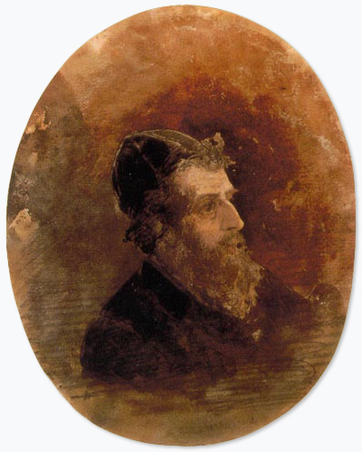 Viktor Hartmann: The Rich Jew